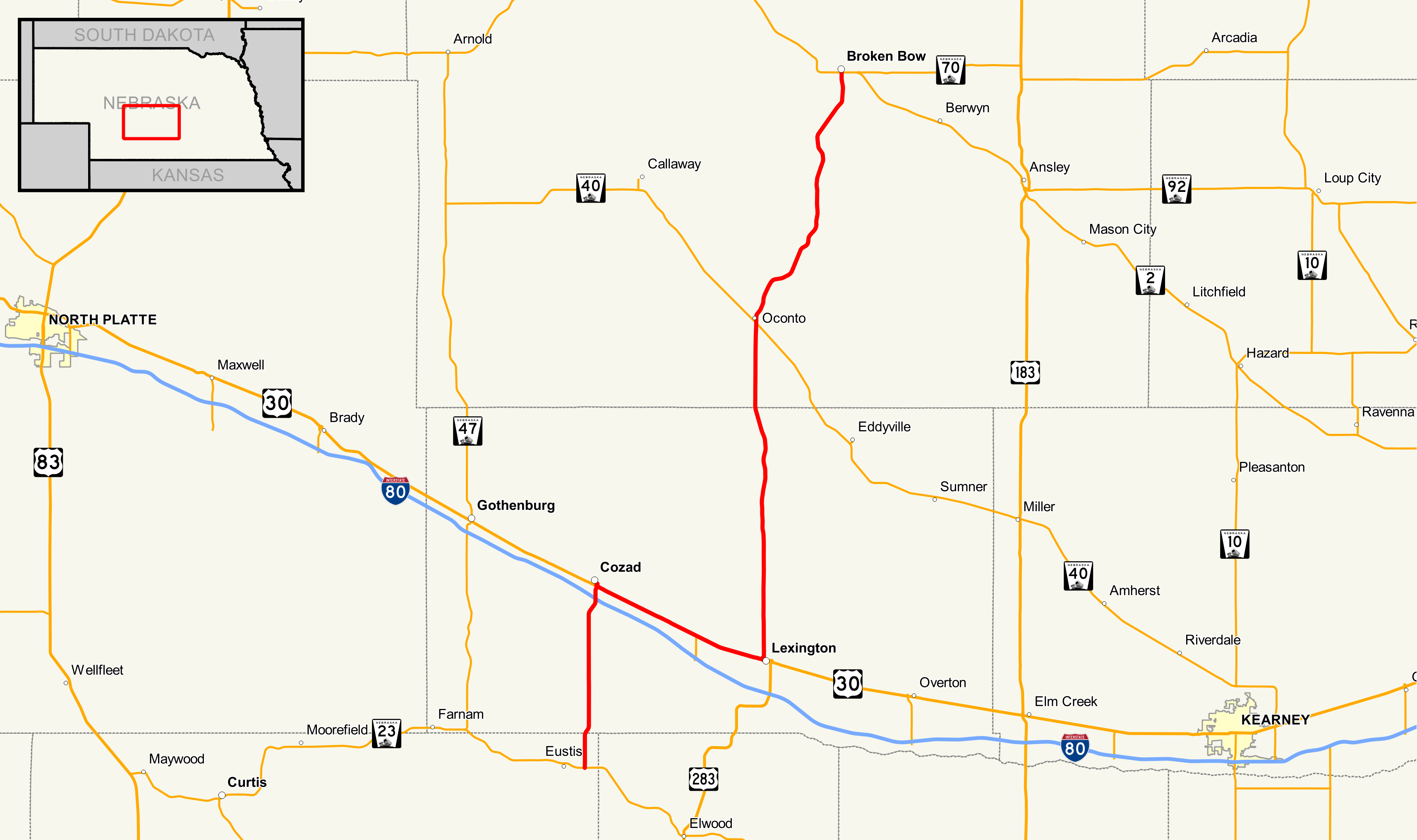 Map of Nebraska Highway 21 Data Sources: Nebraska Highways - - Dec 2016 Nebraska County Boundaries - - Dec 2016 Nebraska City Boundaries - - Dec 2016